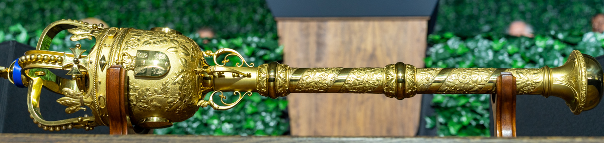 The Mace of the Virginia House of Delegates is seen in the foreground as President Donald J. Trump delivers remarks to commemorate the 400th Anniversary of the First Representative Legislative Assembly Tuesday, July 30, 2019, at the Jamestown Settlement Museum in Williamsburg, Va. (Official White House Photo by Shealah Craighead)